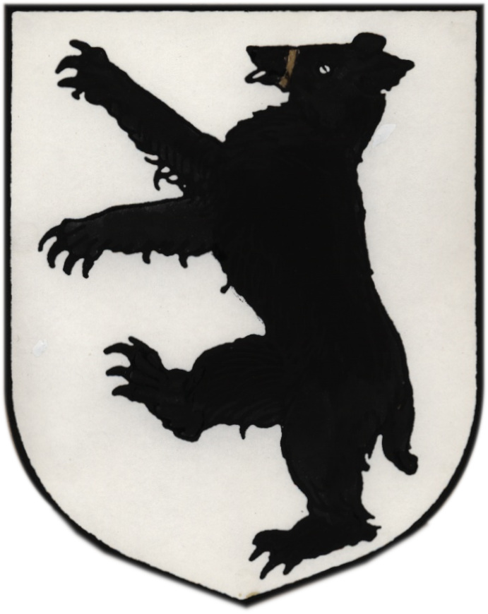 Barnard Coat of Arms As borne by the Sir John Barnard, Lord Mayor of London for 1737. Arms: Argent a bear rampant sable, muzzled or. Crest: Out of a ducal coronet or, a demi bear rampant sable, muzzled or. (Burke)